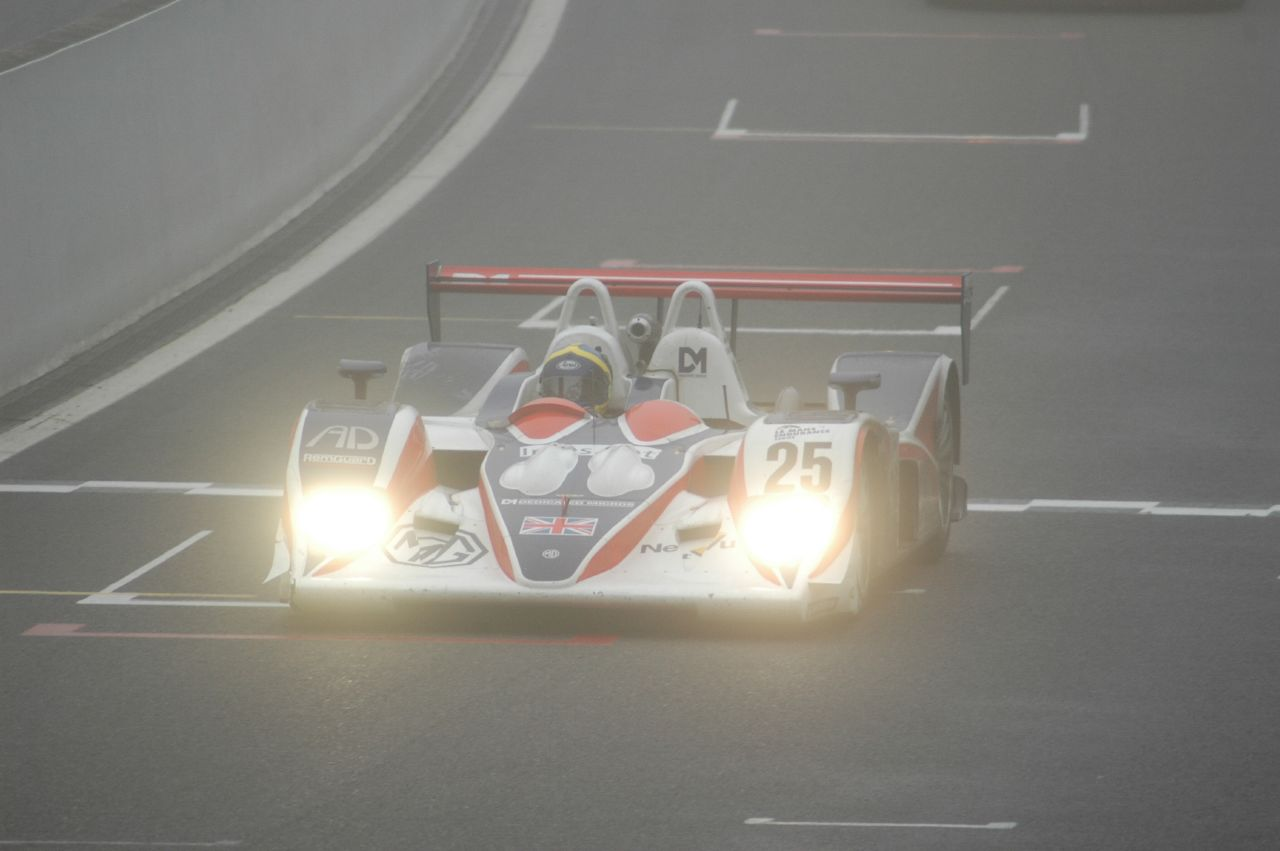 Ray Mallock Ltd.'s (RML) MG-Lola EX264 at the 2005 1000km of Spa driven by Thomas Erdos.